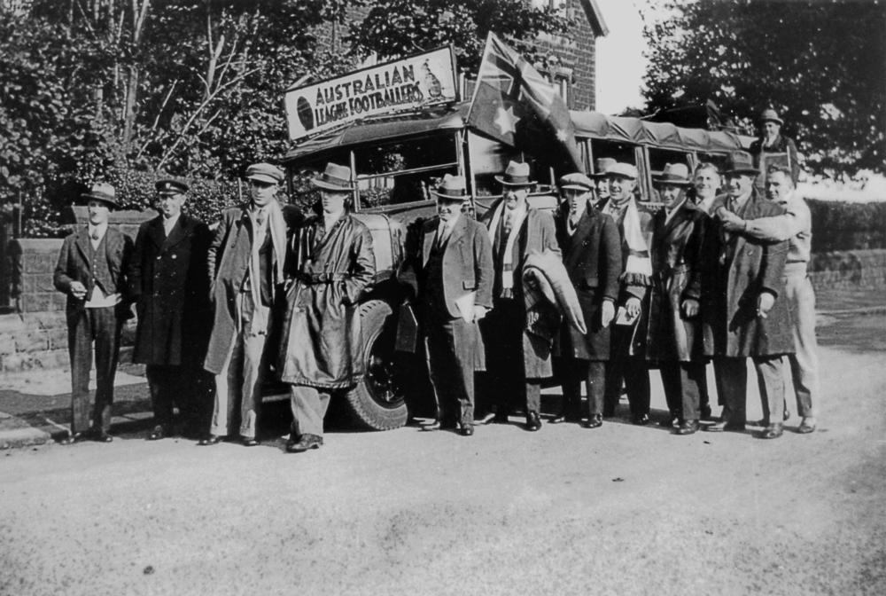 Australian Rugby League Team with their tour bus in England, 1929-30 season How times have changed - the 1929-30 Kangaroos in England line up in front of their special bus. (Description supplied with photograph.) The bus is decorated with an Australian Flag, and a sign with 'Australian League Footballers' and a football and kangaroo on it.